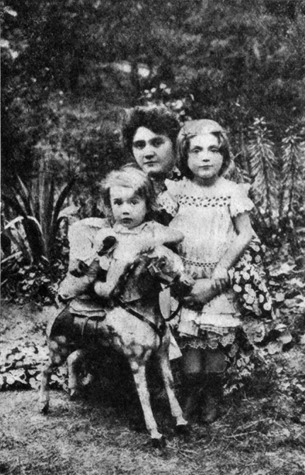 publisher Kamilla Neumannová with children in 1905.